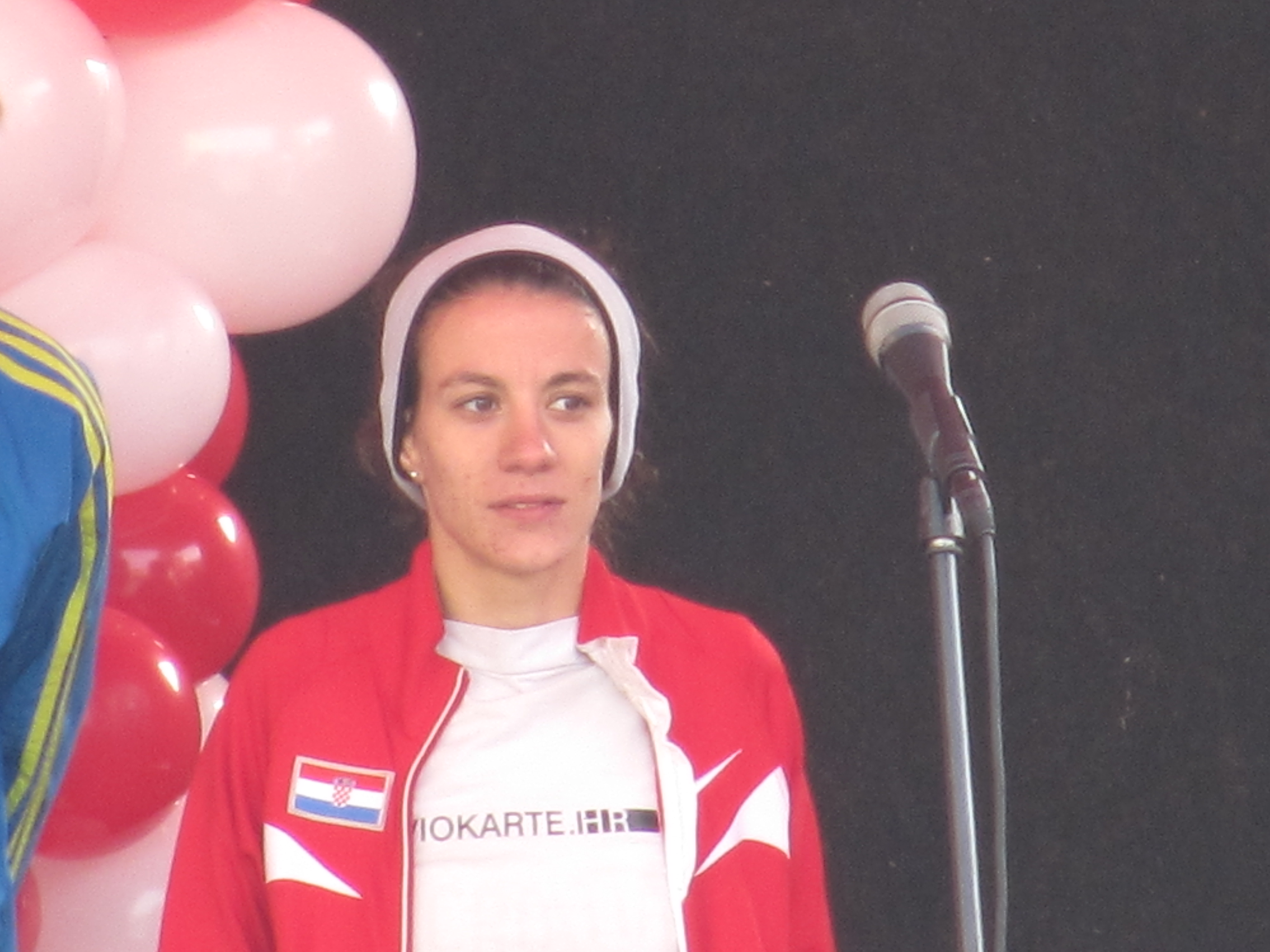 Lisa Christina Stublić of Croatia at the half marathon victory ceremony at the 2010 Zagreb Marathon.